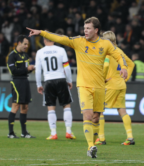 Ukrainian football player Oleksiy Hai during match against Germany